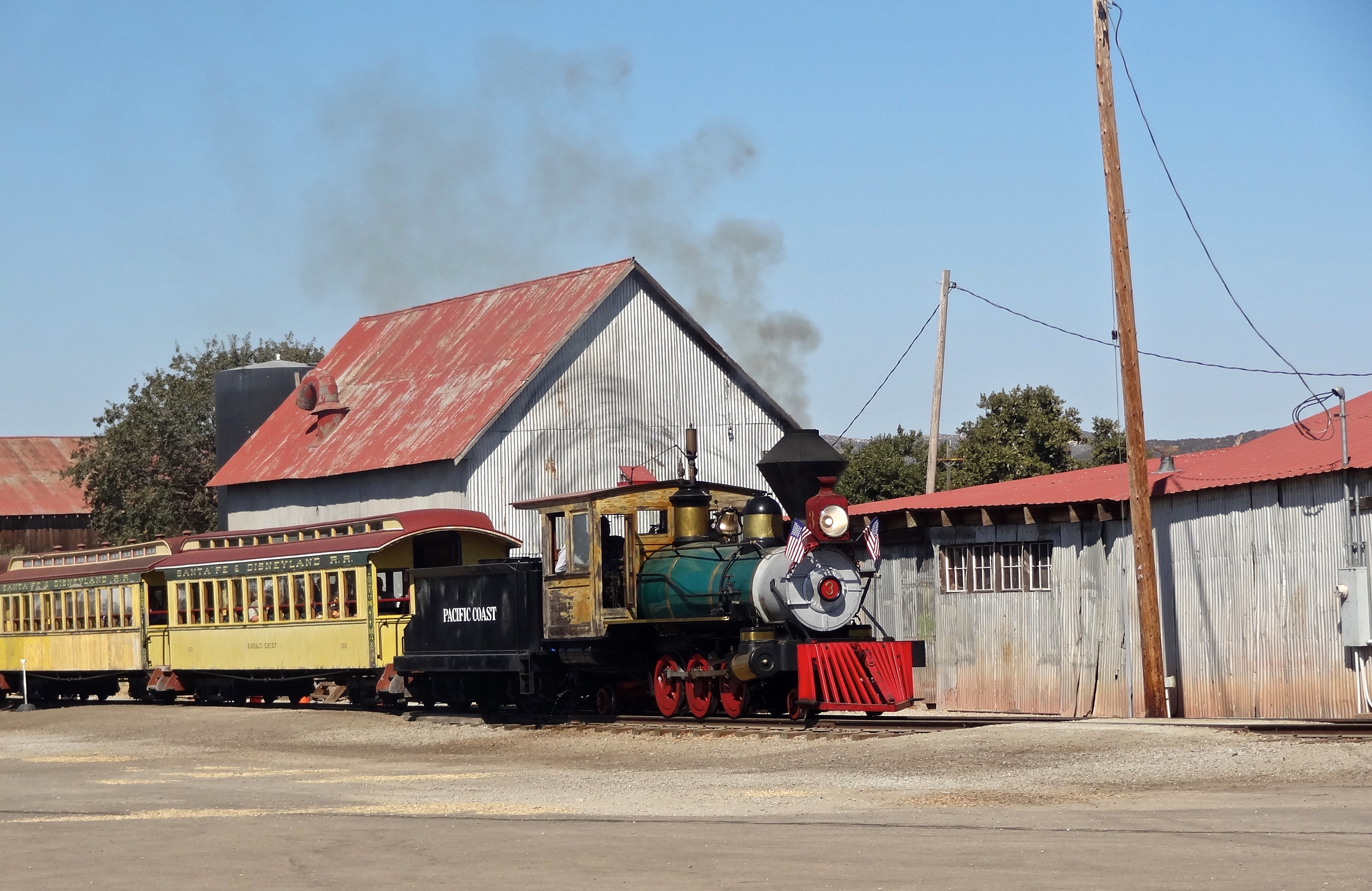 The "Pacific Coast Railroad" follows a narrow-gauge loop around the ranch headquarters. The railroad includes three engines, as well as four 5/8 scale passenger coaches from the Santa Fe & Disneyland Railroad dating back to the 1950s.